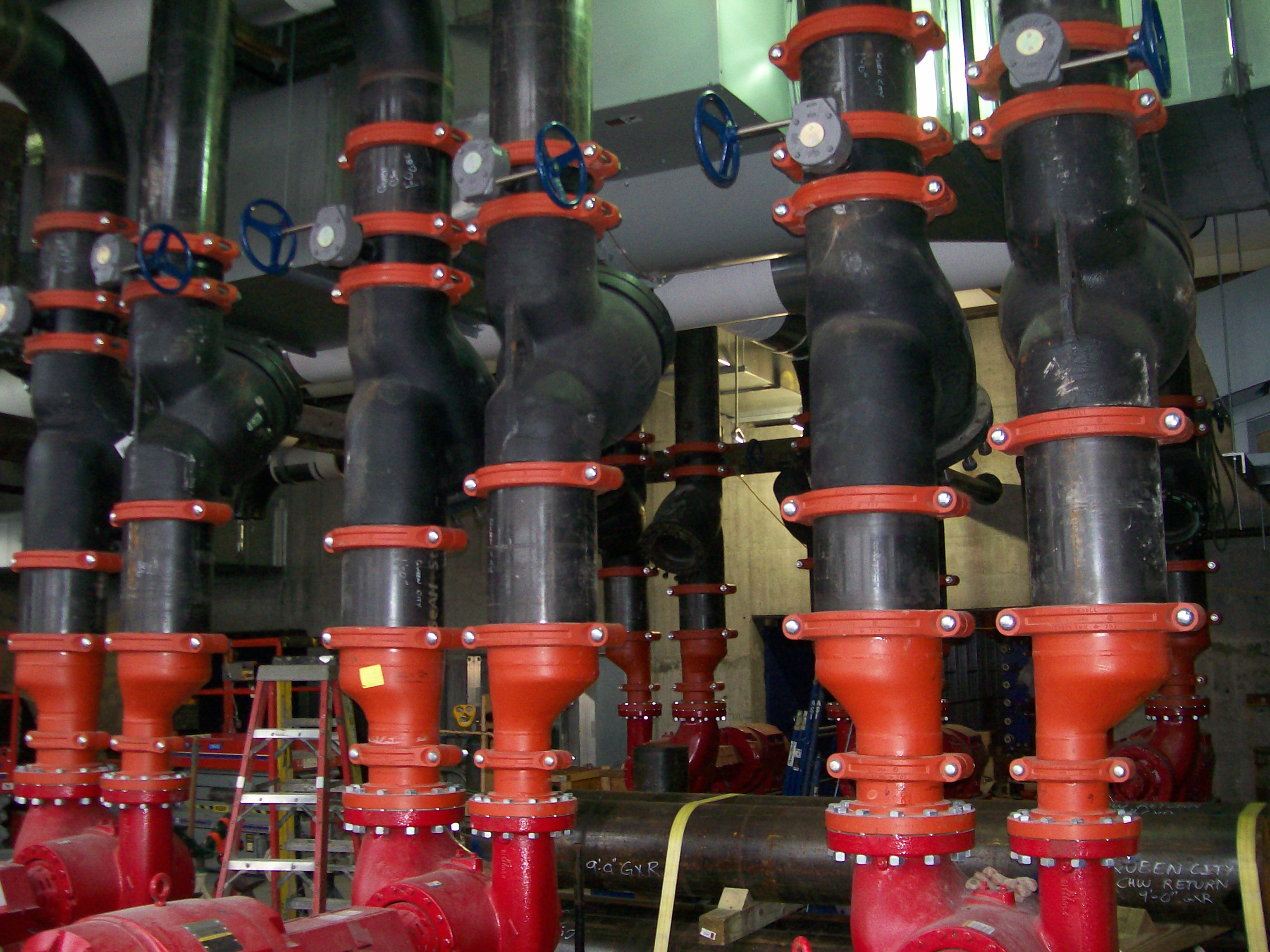 Photo of GRINNELL's products in action.